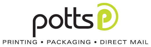 Full text logo of Potts Print (UK)